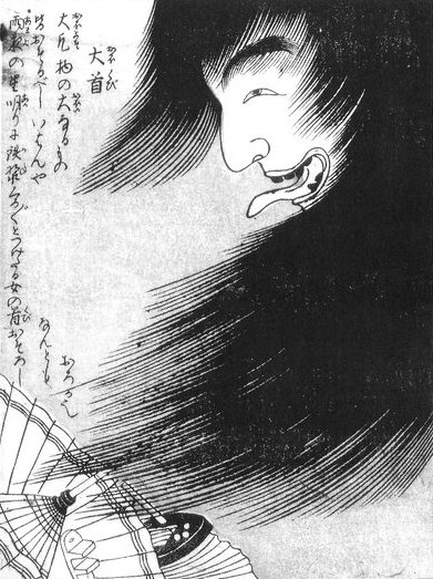 Ōkubi (大首, the face of a huge woman which appears in the sky) from the Konjaku Gazu Zoku Hyakki (今昔画図続百鬼)